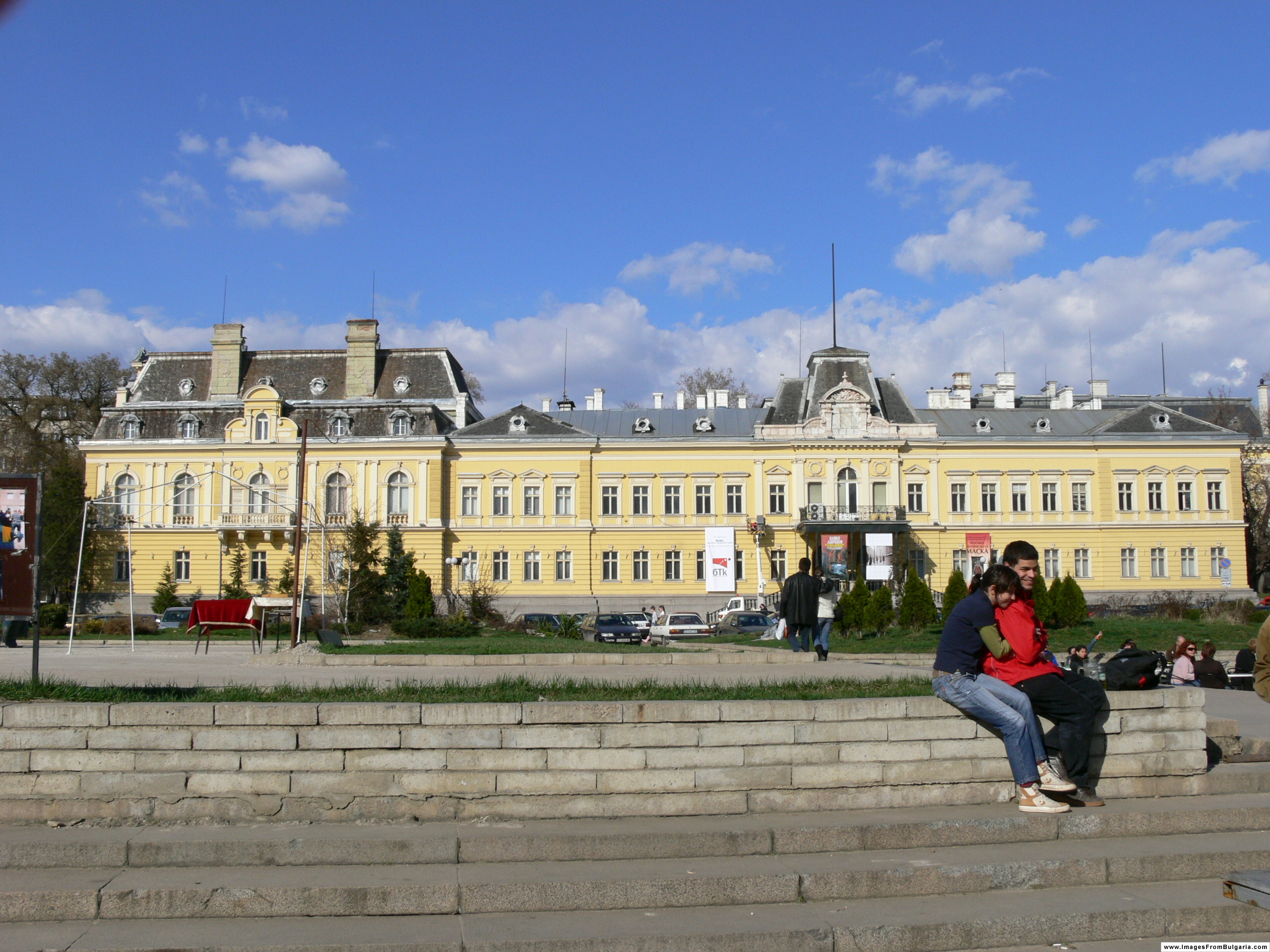 National Art Gallery of Bulgaria. Sofia, Bulgaria